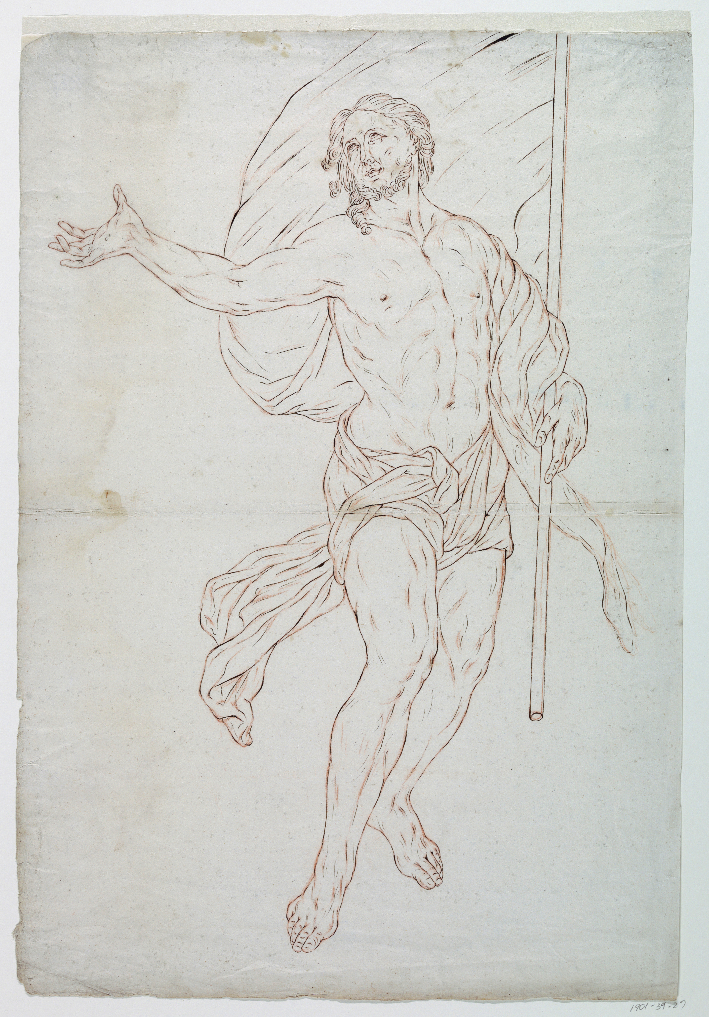 Contour drawing of Christ holding a white banner.